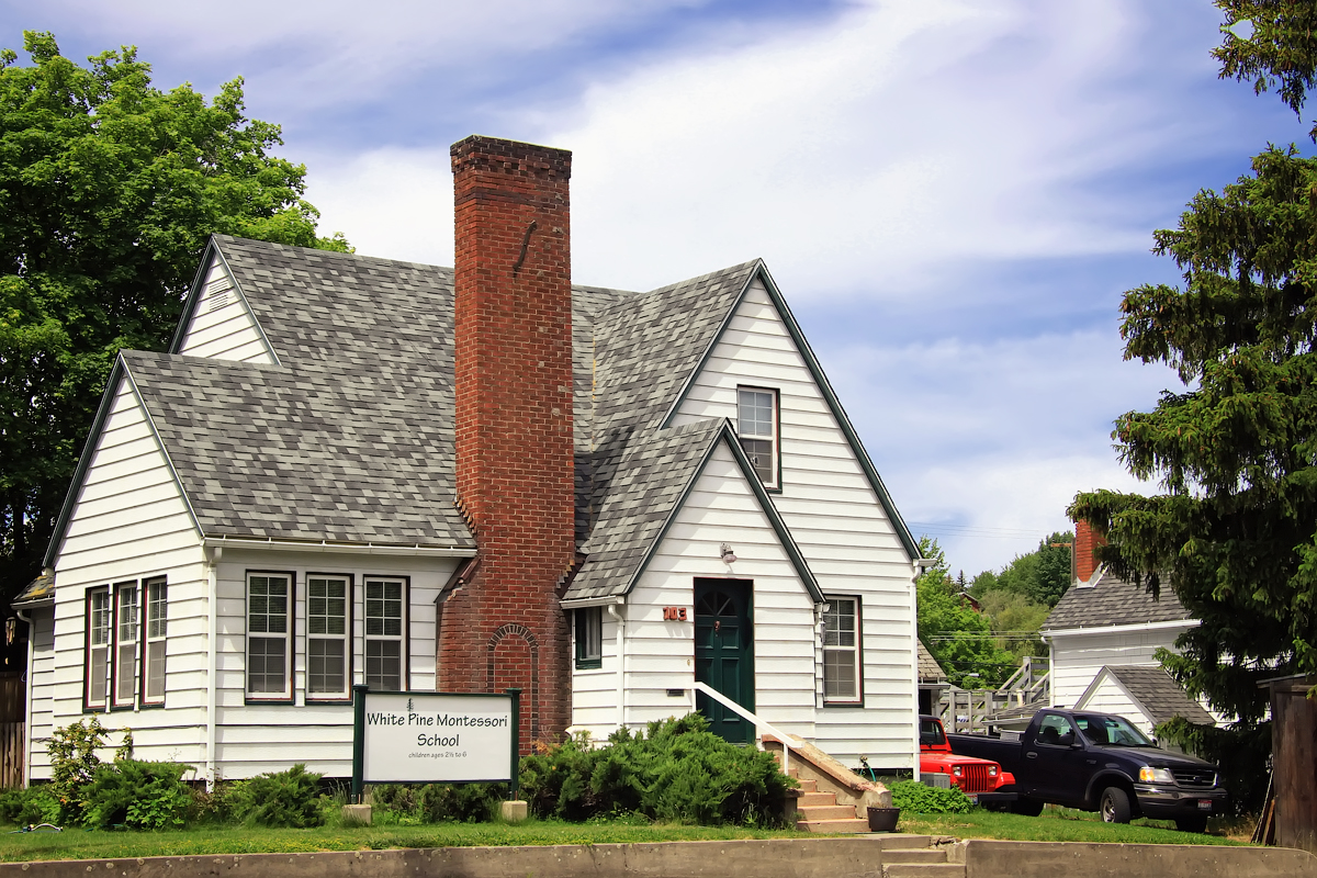 White Pine Montessori School in Moscow, Idaho, U.S.